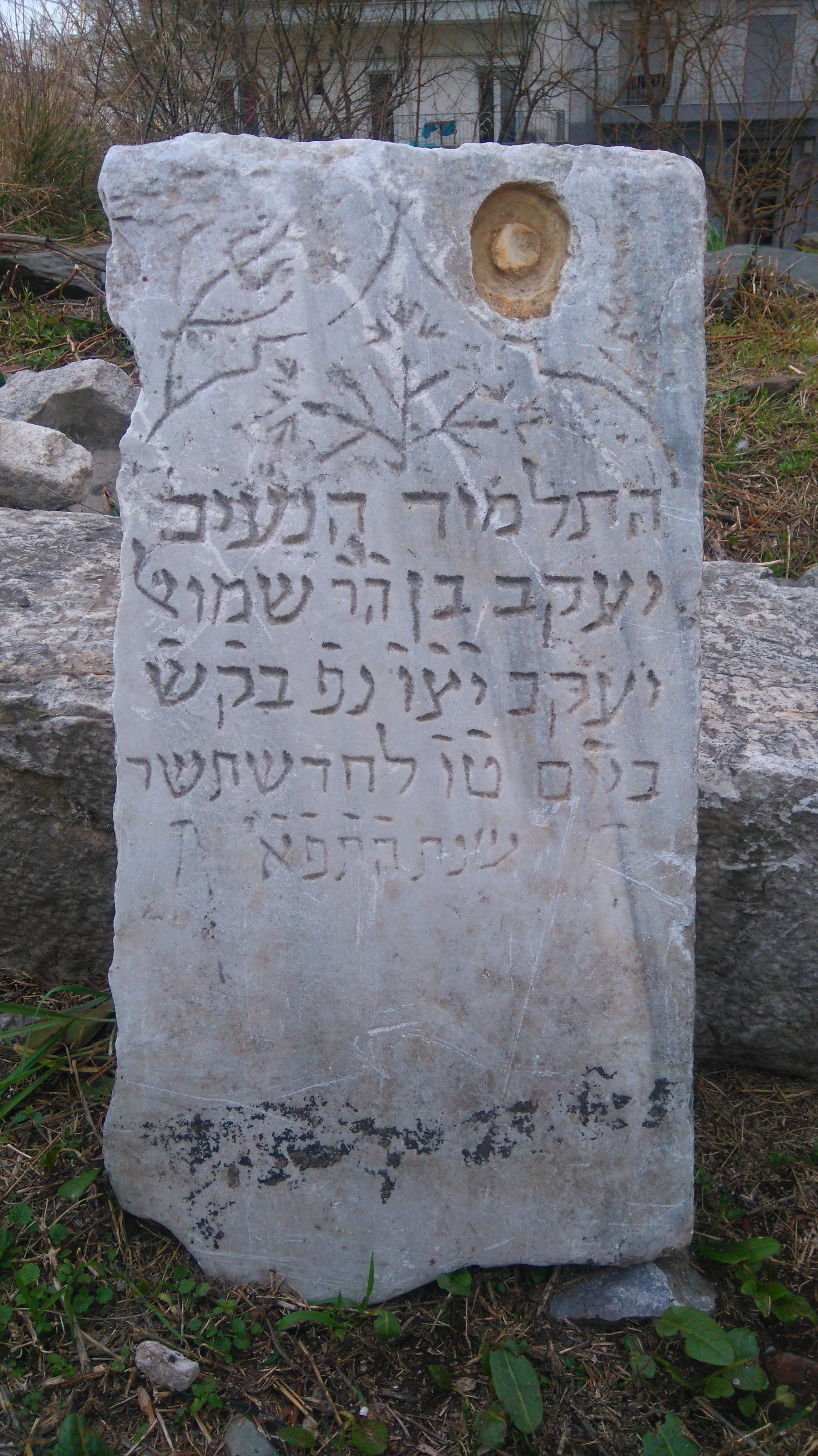 A gravestone with hebrew inscription in Thessaloniki, Greece.